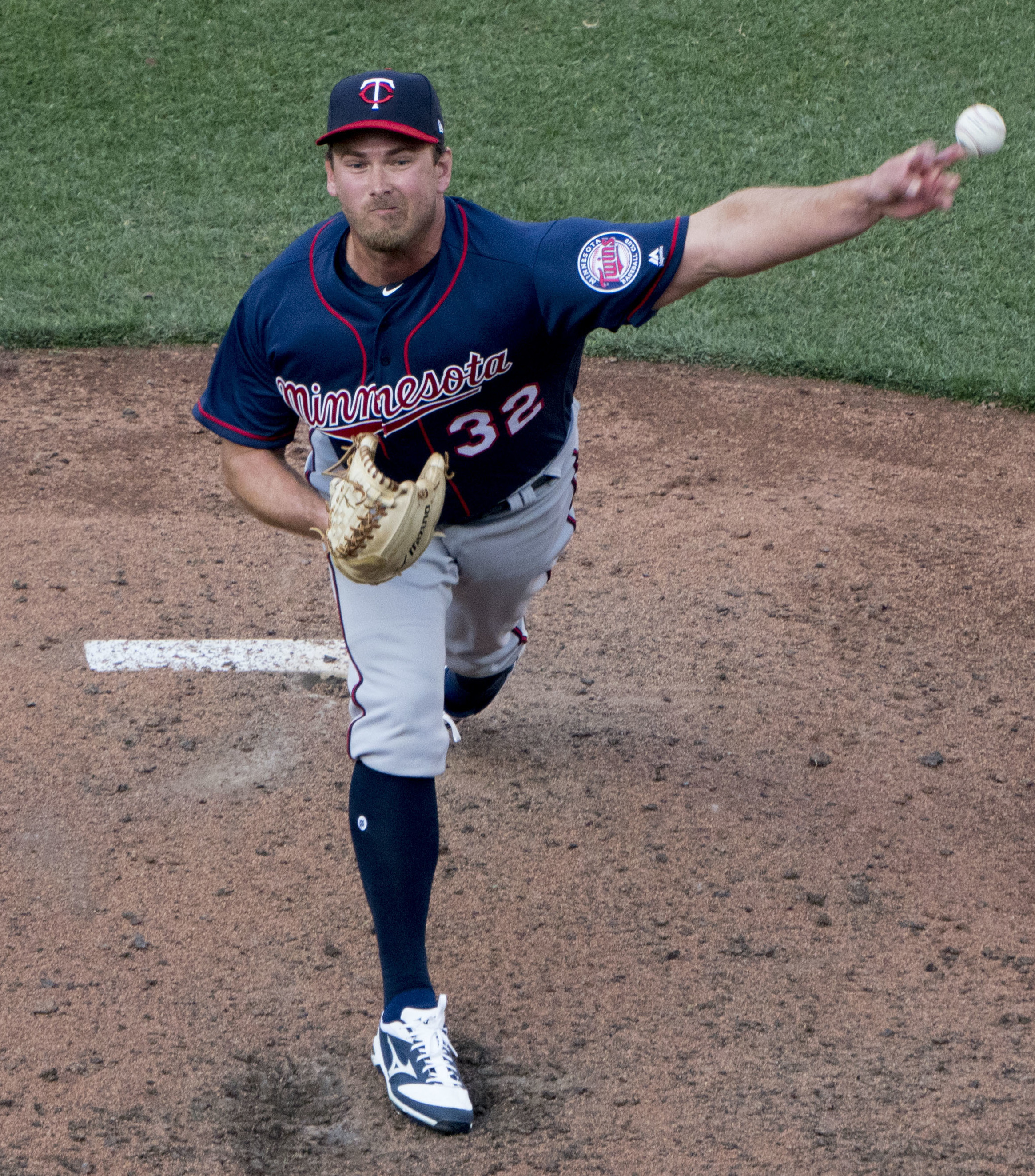 Zach Duke pitching for the Minnesota Twins against the Baltimore Orioles in the Opening Day game at Oriole Park at Camden Yards on March 29, 2018 in Baltimore, Maryland.